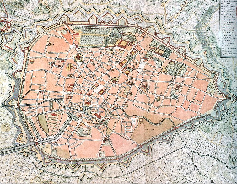 Brussels, around 1745